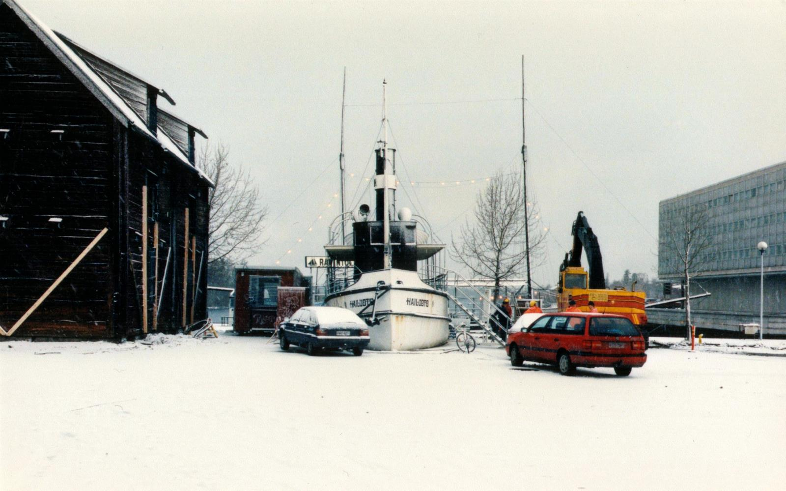 Packet steamer Hailuoto on dry land in Oulu market place. The ship was transfered to Lumijoki next year.